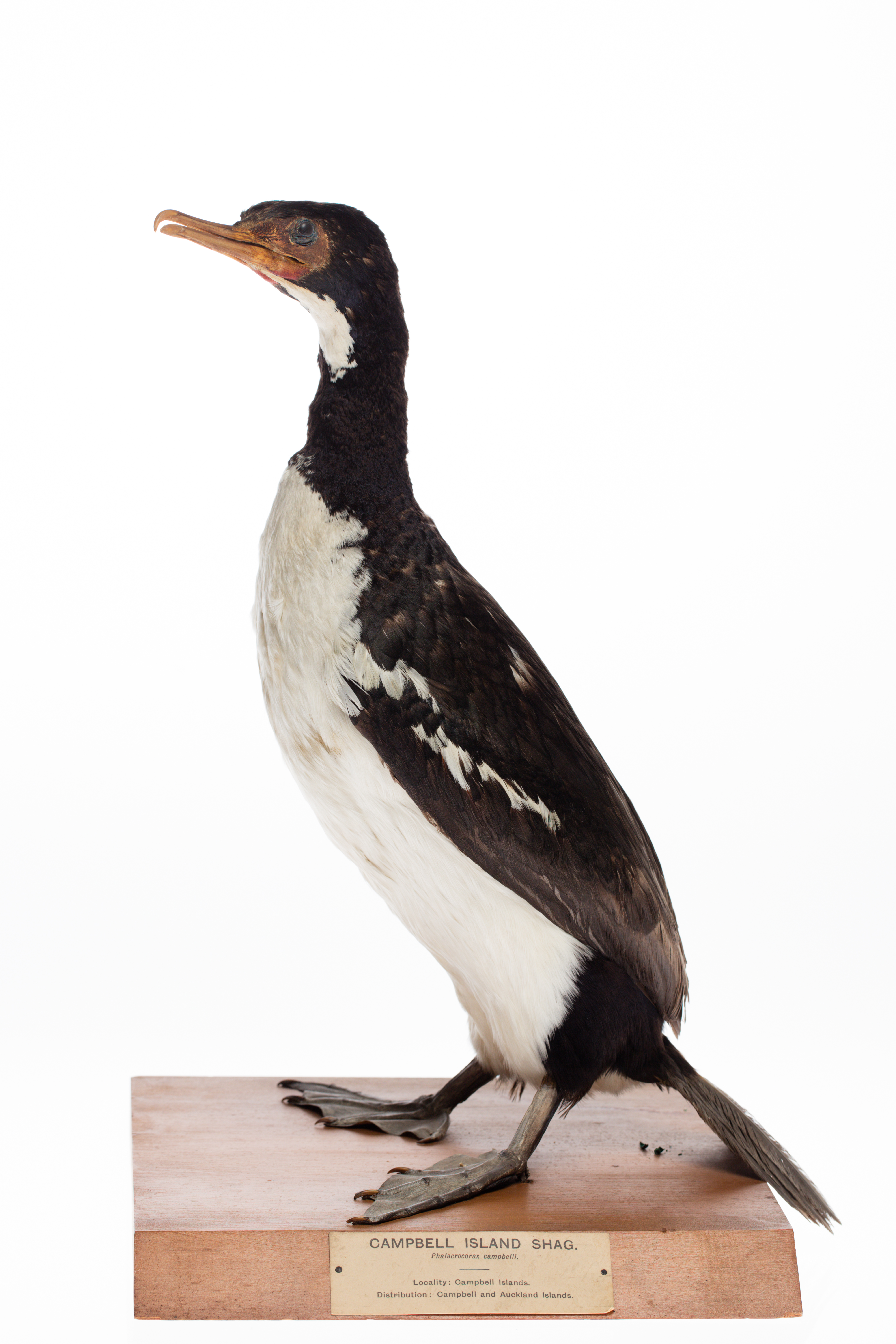 Campbell Island Shag, Leucocarbo campbelli, (AM LB765) mount from the collection of Auckland Museum